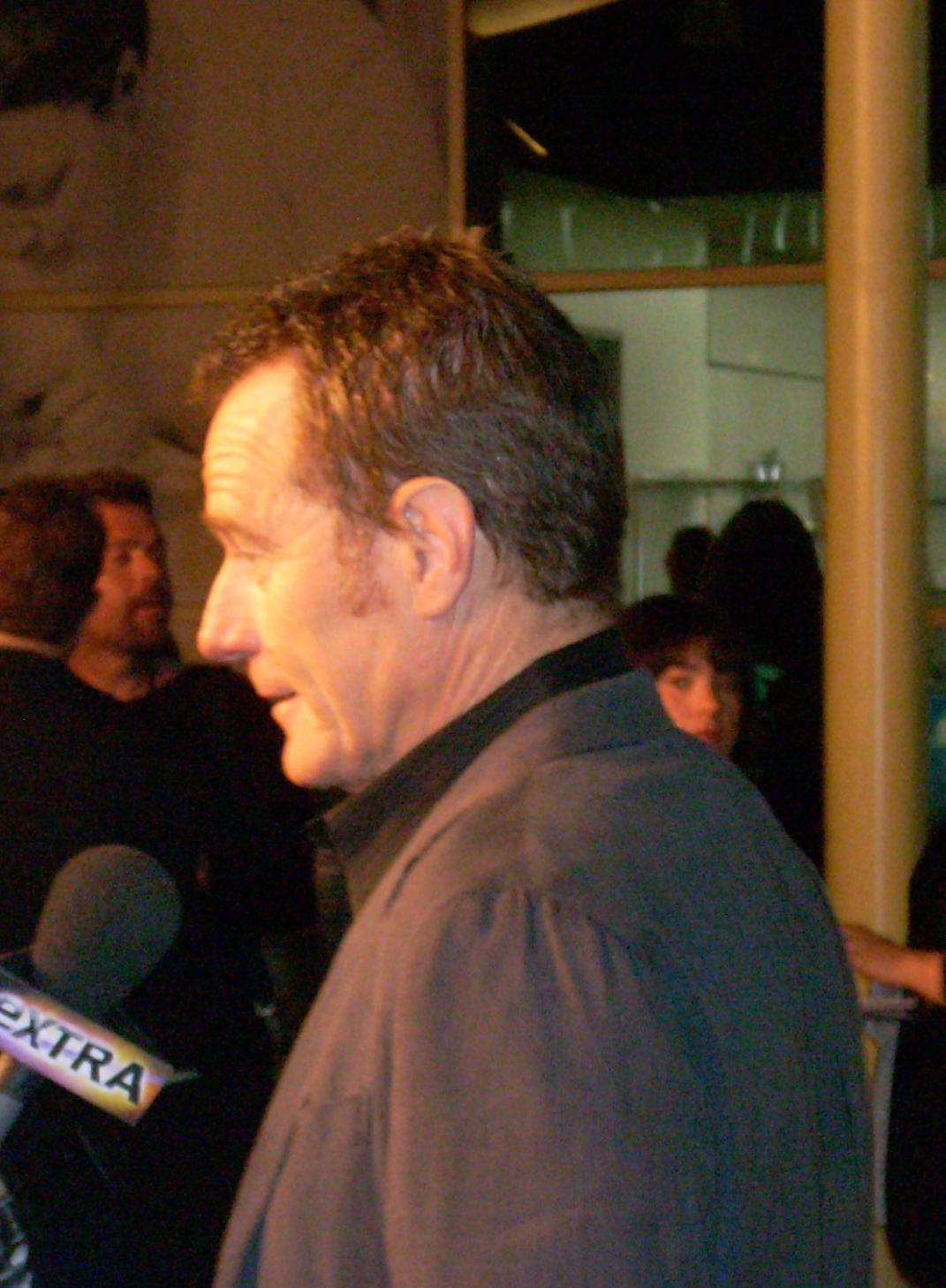 Actor Bryan Cranston at "Breaking Bad" Premiere Party in ArcLight Cinemas, Hollywood.